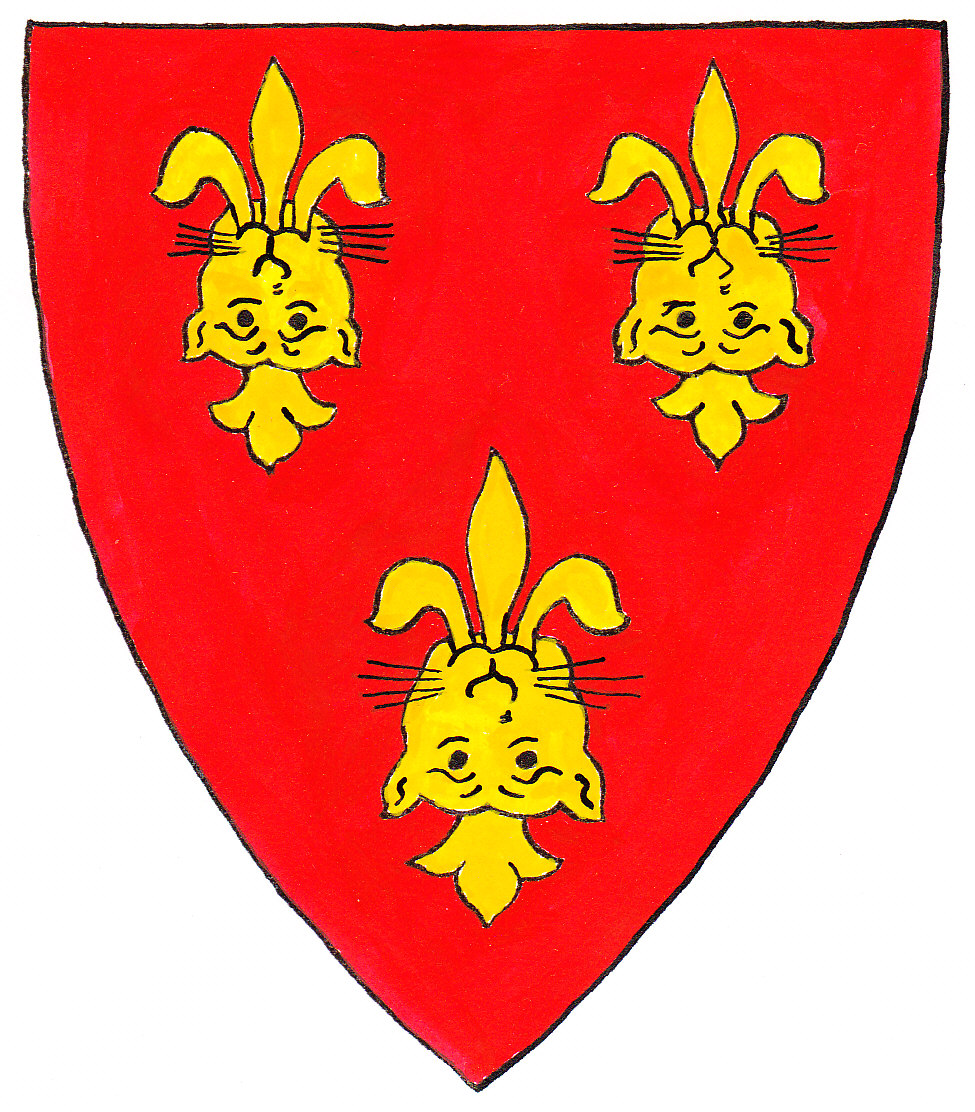 Arms of See of Hereford: Gules, 3 leopard's faces jessant-de-lys reversed or. Source: Debrett's Peerage 1968, p.568. These were the personal arms of Bishop Thomas de Cantilupe (d.1282). Image: own work by (Lobsterthermidor (talk) 22:40, 7 June 2011 (UTC))